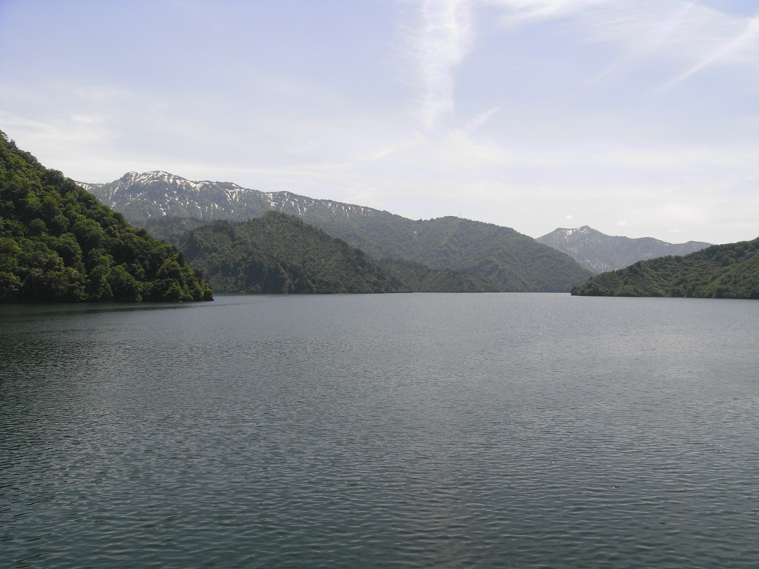 Lake Tagokurako(Fukushima Pref./Japan)